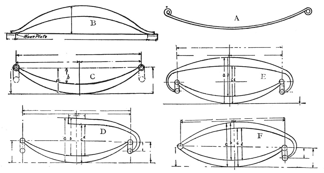 Fig. 57 Leaf spring shapes Car suspension leaf spring shapes Scans from 'The Book of the Motor Car', Rankin Kennedy C.E., 1912 See other images from this source in Scans from 'The Book of the Motor Car'